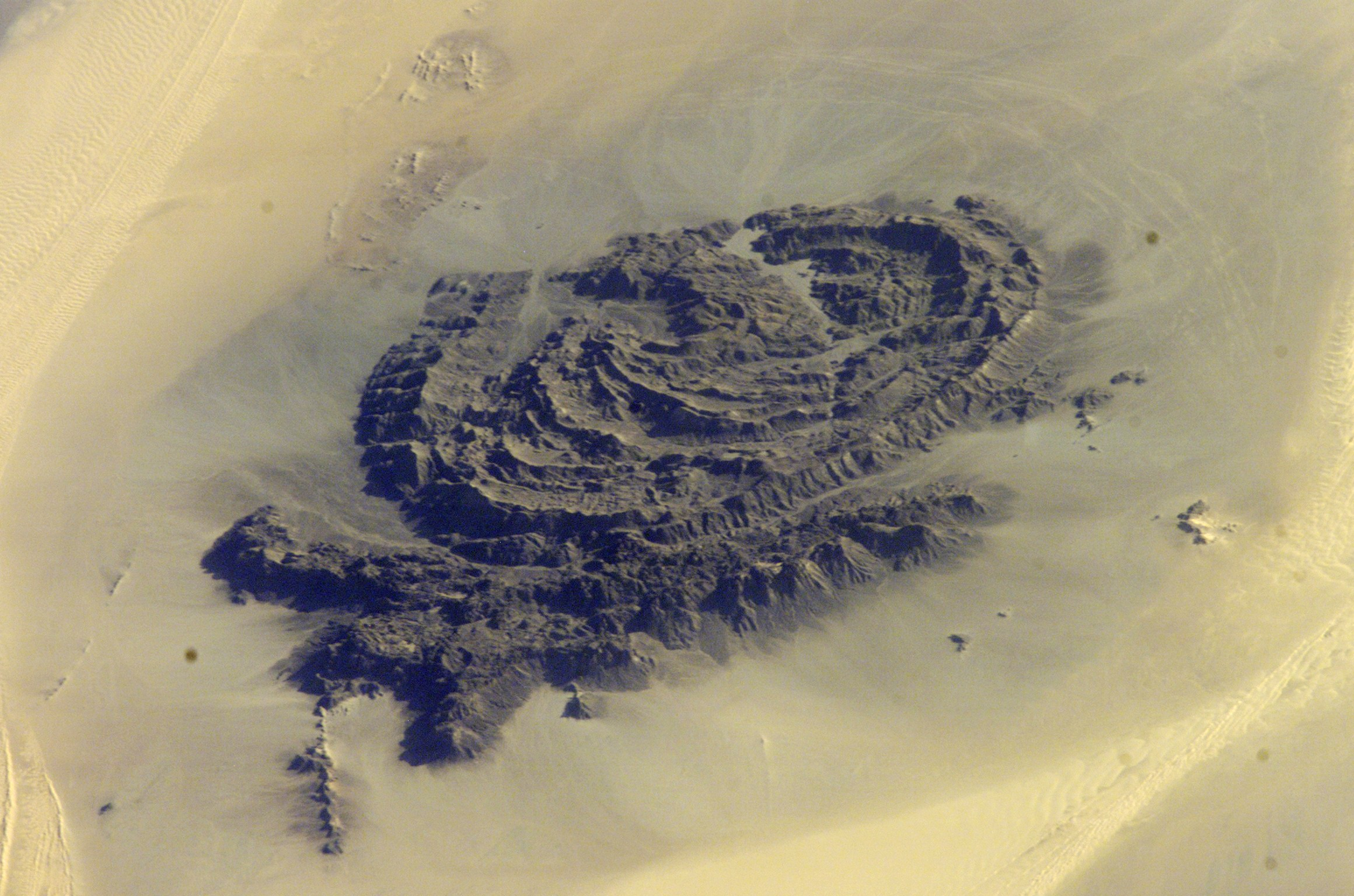 Identification Mission: ISS004 Roll: E Frame: 9303 Mission ID on the Film or image: ISS004 Country or Geographic Name: SUDAN Features: JEBAL KISSU, WINDSTREAK (in truth Jabal Arkanu) Center Point Latitude: 21.5 Center Point Longitude: 25.5 (Negative numbers indicate south for latitude and west for longitude) Stereo: (Yes indicates there is an adjacent picture of the same area) ONC Map ID: JNC Map ID: Camera Camera Tilt: 51 Camera Focal Length: 400mm Camera: E4: Kodak DCS760C Electronic Still Camera Film: 3060E : 3060 x 2036 pixel CCD, RGBG array. Quality Film Exposure: Percentage of Cloud Cover: 10 (0-10) Nadir Date: 20020404 (YYYYMMDD)GMT Time: 150429 (HHMMSS) Nadir Point Latitude: 21.0, Longitude: 21.3 (Negative numbers indicate south for latitude and west for longitude) Nadir to Photo Center Direction: East Sun Azimuth: 267 (Clockwise angle in degrees from north to the sun measured at the nadir point) Spacecraft Altitude: 208 nautical miles (385 km) Sun Elevation Angle: 24 (Angle in degrees between the horizon and the sun, measured at the nadir point) Orbit Number: 3259